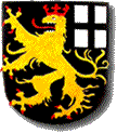 Coat of arms of the former district of Mohrungen, East Prussia.